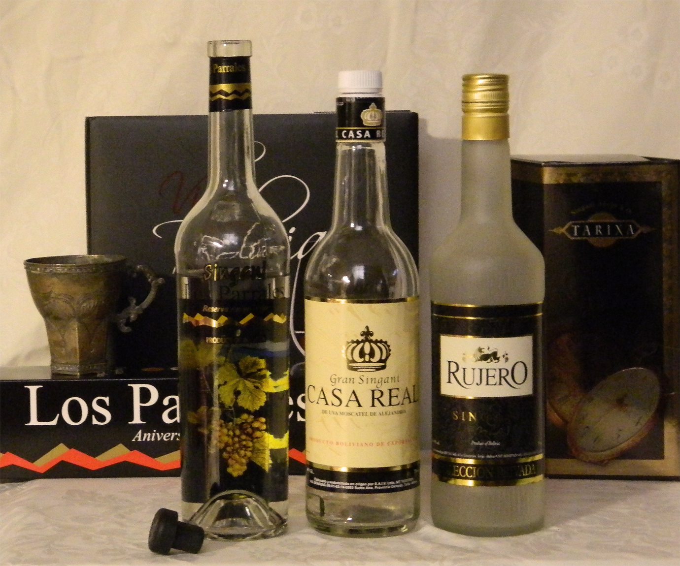 photographic image of singani Los Parrales, Casa Real, Rujero